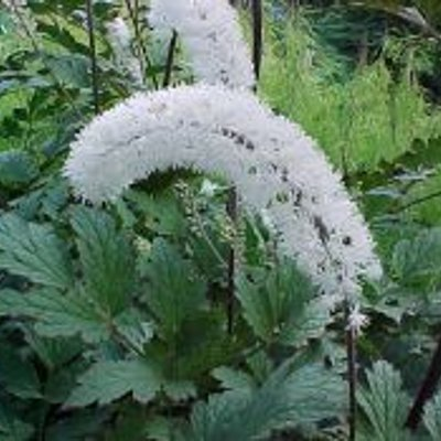 Growth: 120cm High x 40cm Spread Arching stems of white bottle-brush like flowers. Smooth divided foliage. Prefers some shade and moisture. Please feel free to reuse this image provided you credit it with a link to